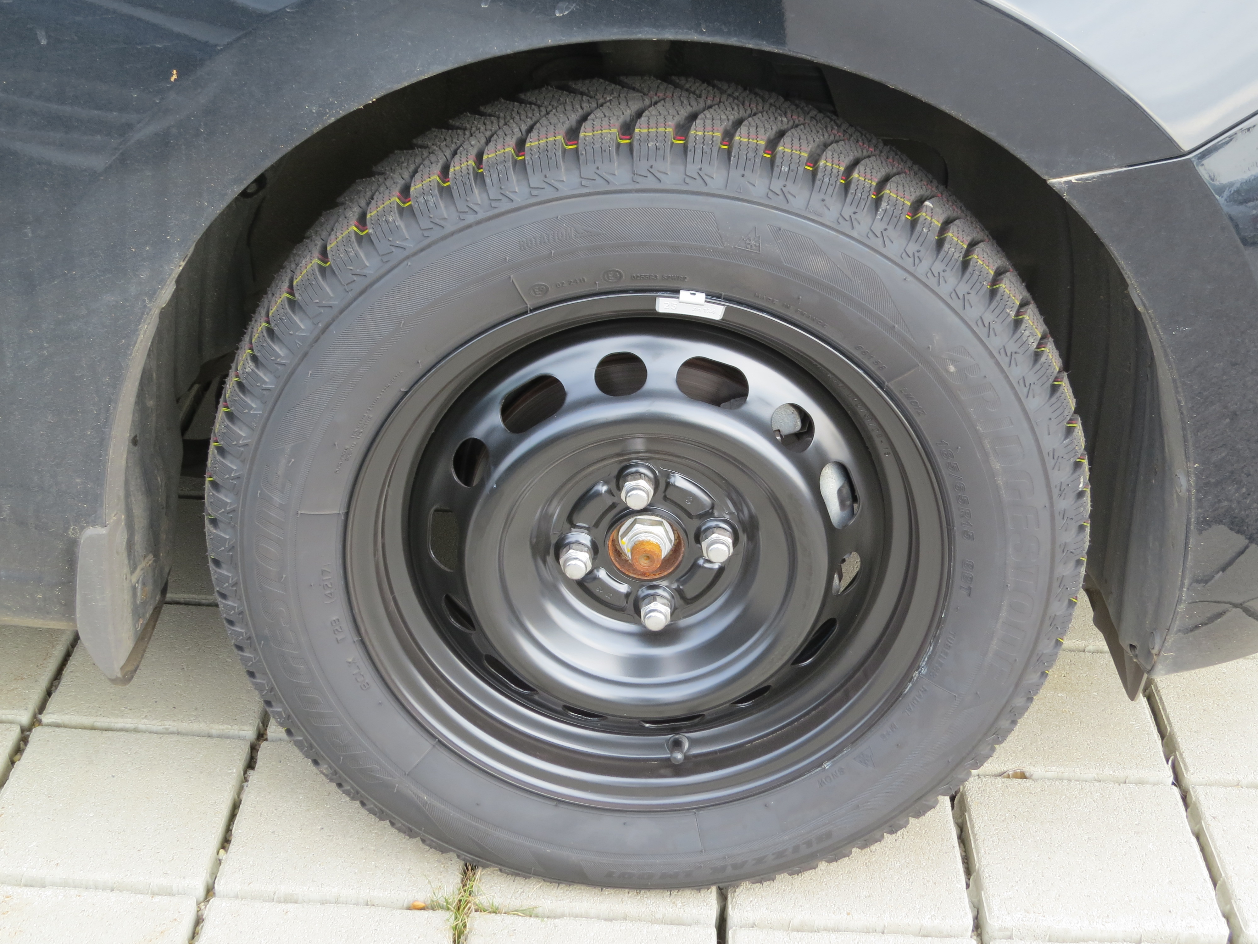 Bridgestone Blizzak LM 001 185/65 R 15 88 T tire with alancing weight at Bahnhof Wolkersdorf